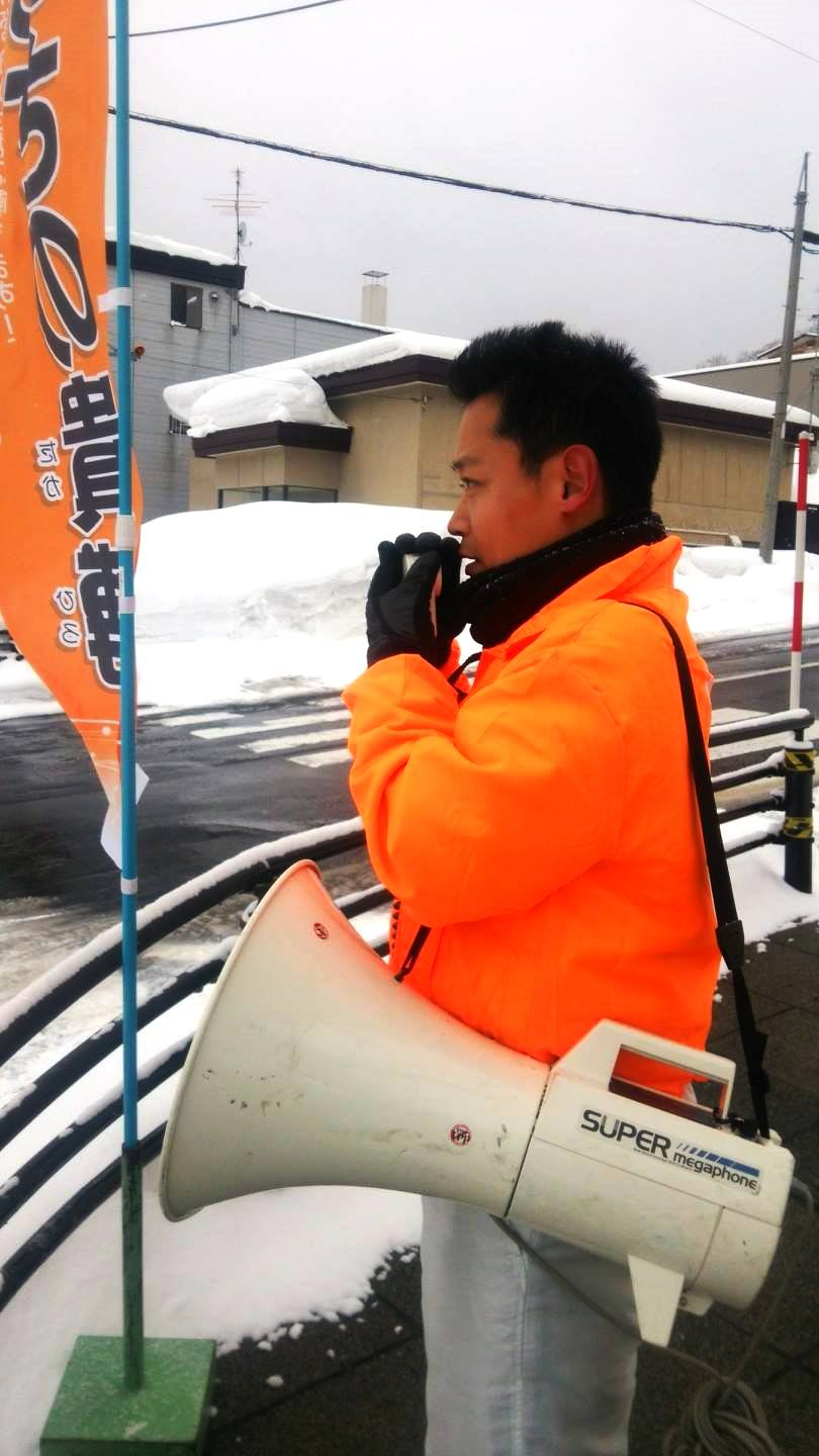 a speech made on a street corner in Rumoi city, Hokkaido.